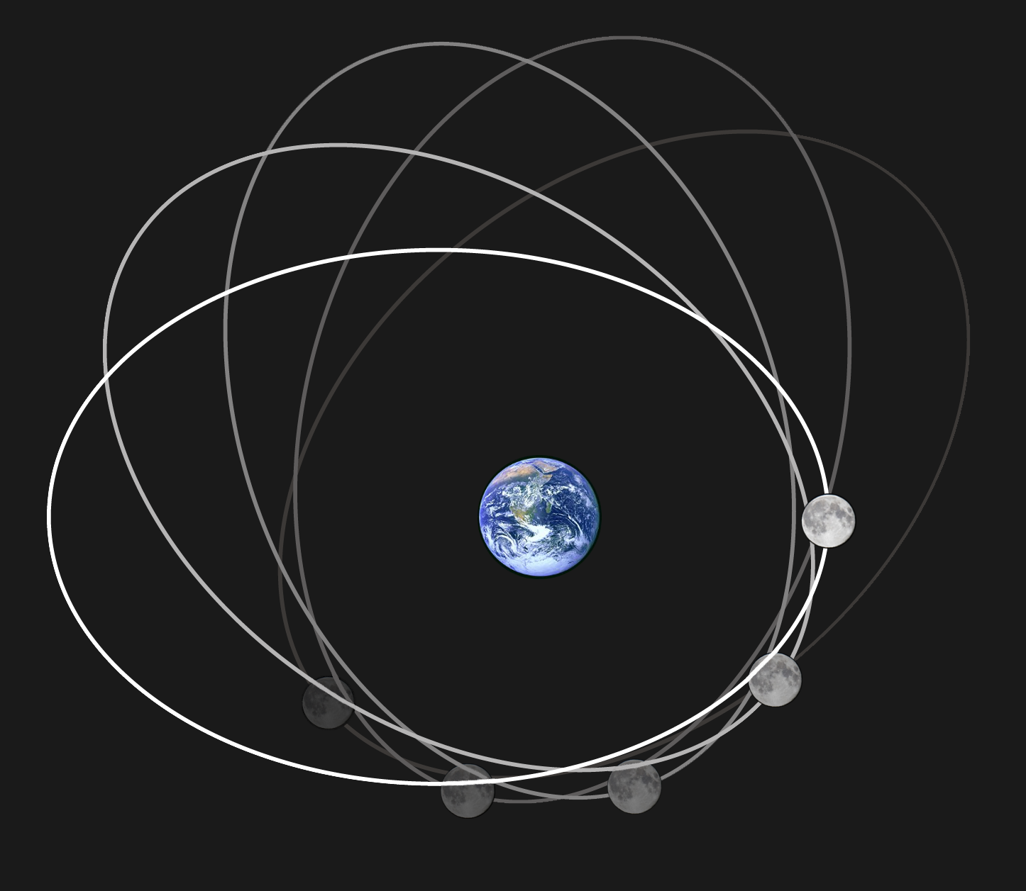 Apsidal precession. The orientation of an orbit is not fixed in space, but rotates over time. This orbital precession is also called apsidal precession. The image shows the rotation of the Moon's orbit within its orbital plane, i.e. the axes of the ellipse are changing their orientation. (Distances and sizes are not to scale.) The Moon's major axis – the longest diameter of the orbit, joining its nearest and farthest points, the perigee and apogee, respectively – makes one complete revolution about every 8.85 Earth years, or 3,233 days, as it rotates slowly in the same direction as the Moon itself. The Moon's apsidal precession is distinct from, and should not be confused with its axial precession.